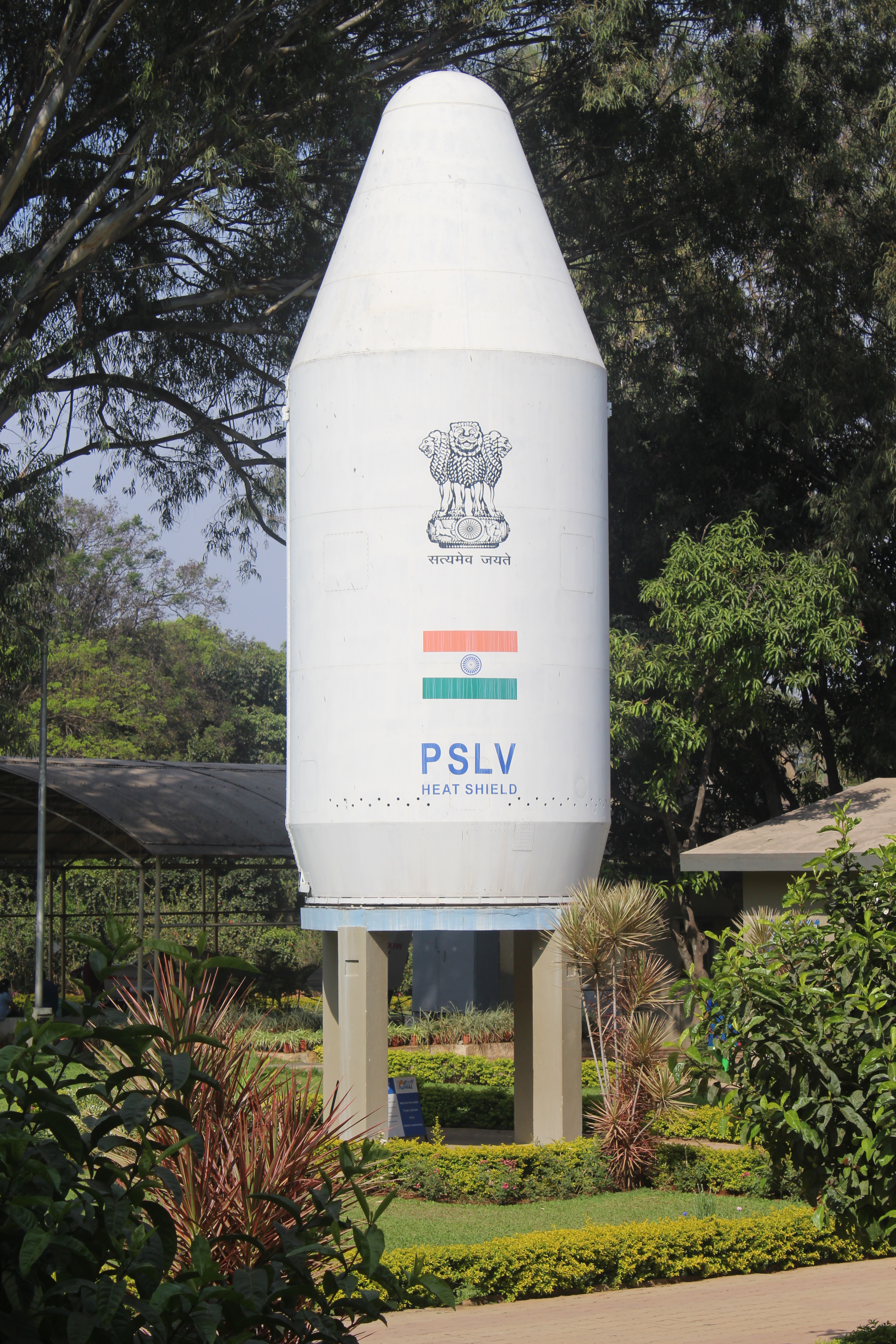 PSLV Heat Shield Model at HAL Aerospace Museum in Bengaluru